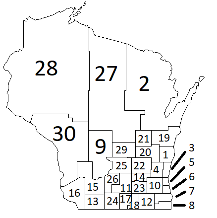 Wisconsin Senate Districts as drawn by 1856 Wisconsin Act 109 In effect for elections from 1856 through 1860.